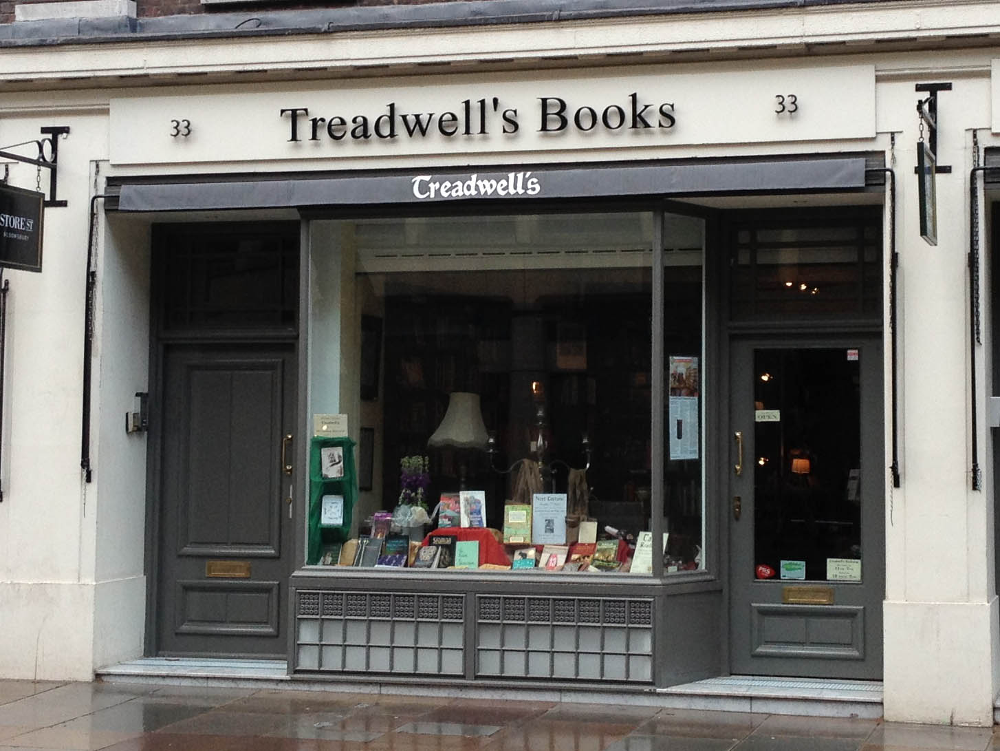 Store St, London WC1.